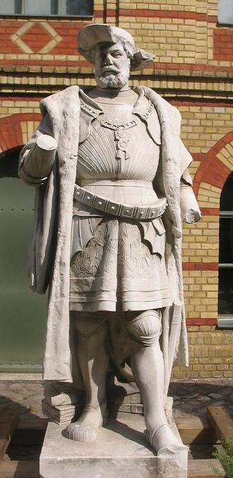 Central statue commemorating to John Cicero, Elector of Brandenburg of the monumentgroup № 18 in the former Siegesallee in Berlin. Sculptor: Albert Manthe, inaugurated 14 November 1900. Here in the Spandau Citadel in August 2009, before its conservation-restoration.